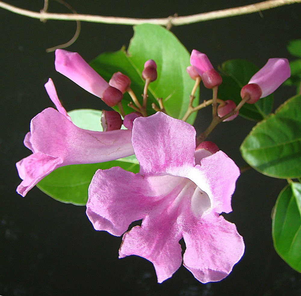 A neotropical vine with a garlic smell, known in the Neotropics as Ajillo. Photo from the Indio Maiz Reserve, southeastern Nicaragua. In context at Mansoa hymenaea